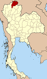 Map of Thailand highlighting Chiang Rai province